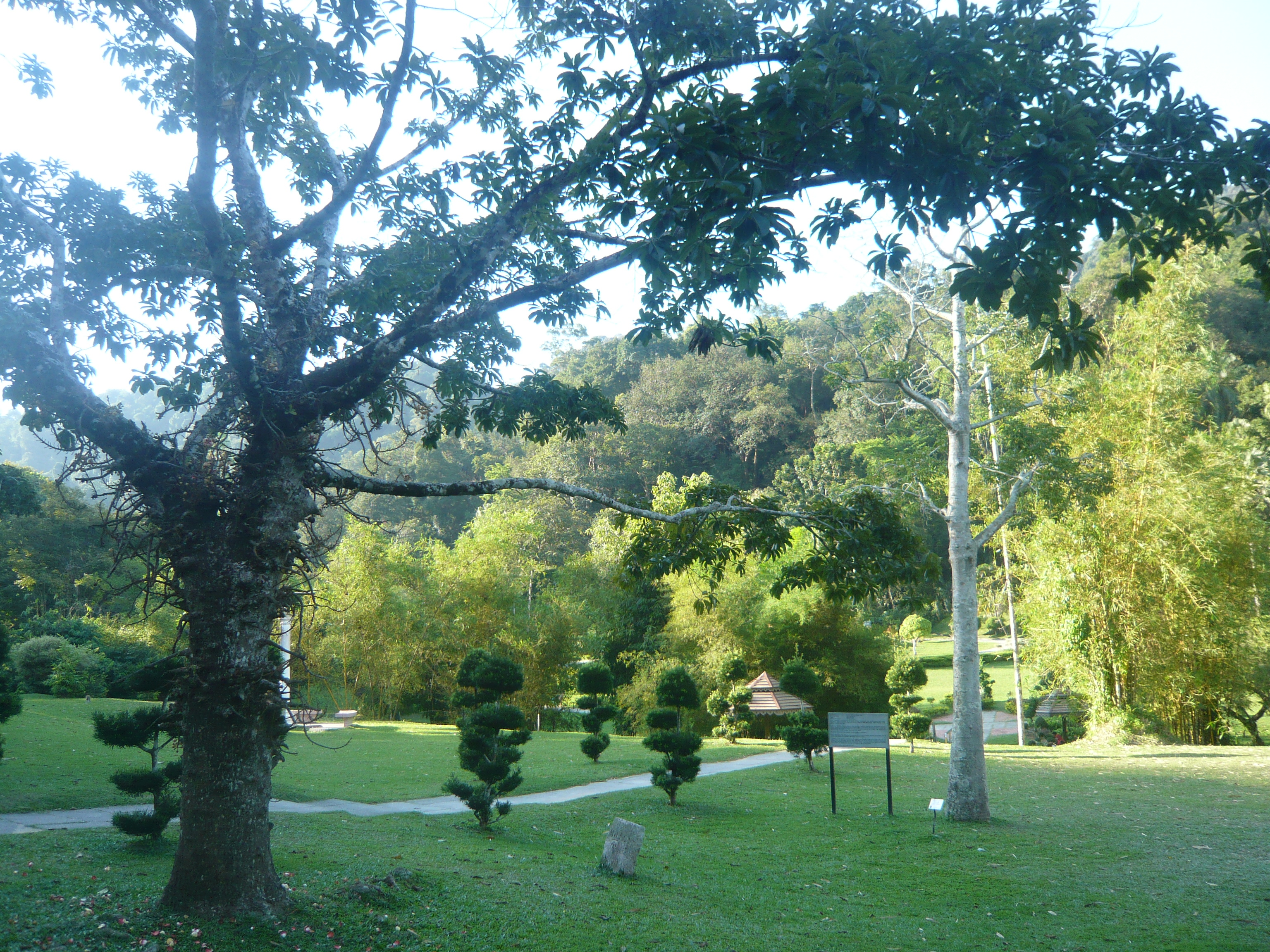 View of the Penang Botanic Gardens